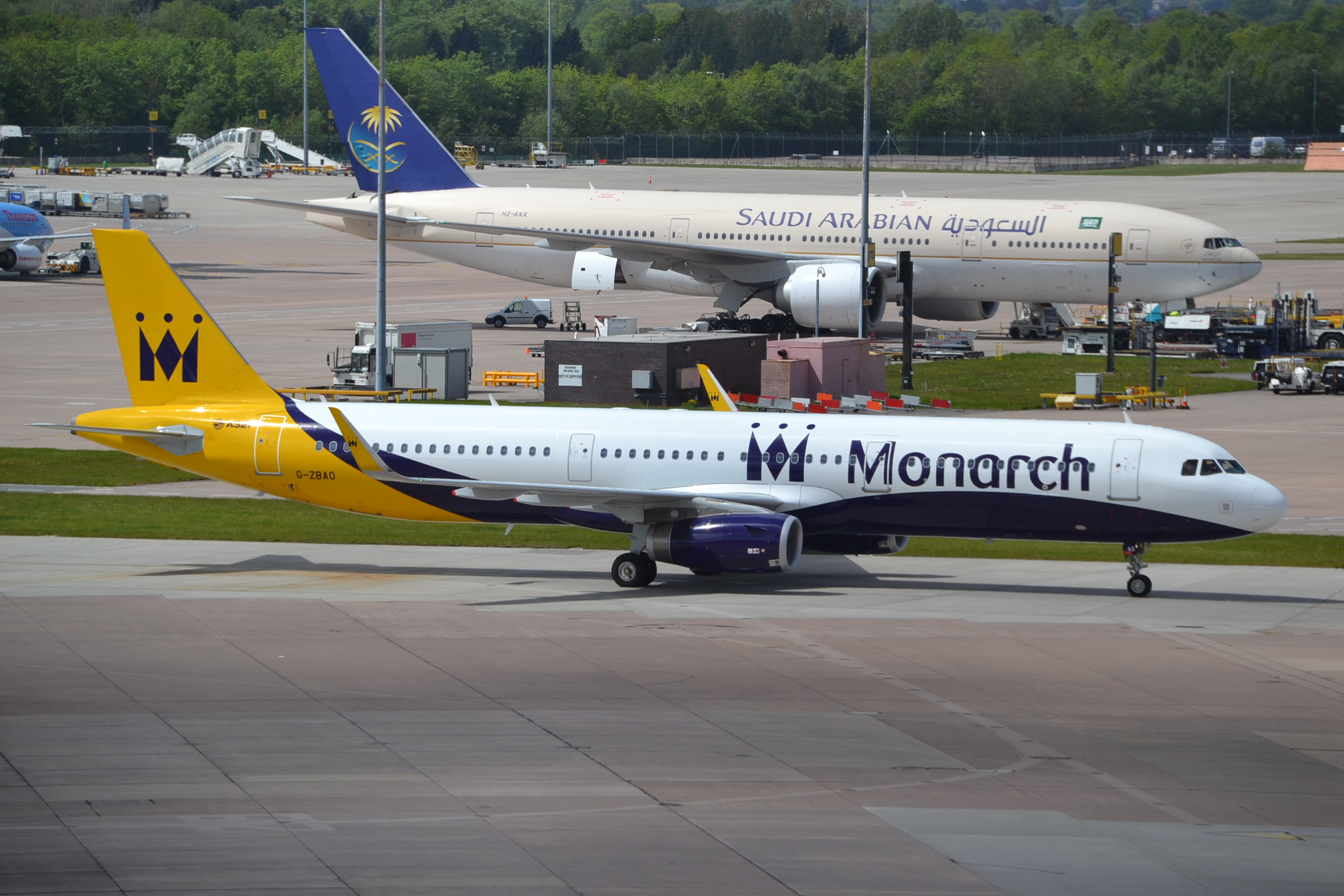 Airbus A321(SL) of Monarch Airlines at Manchester-MAN, 16/05/15.